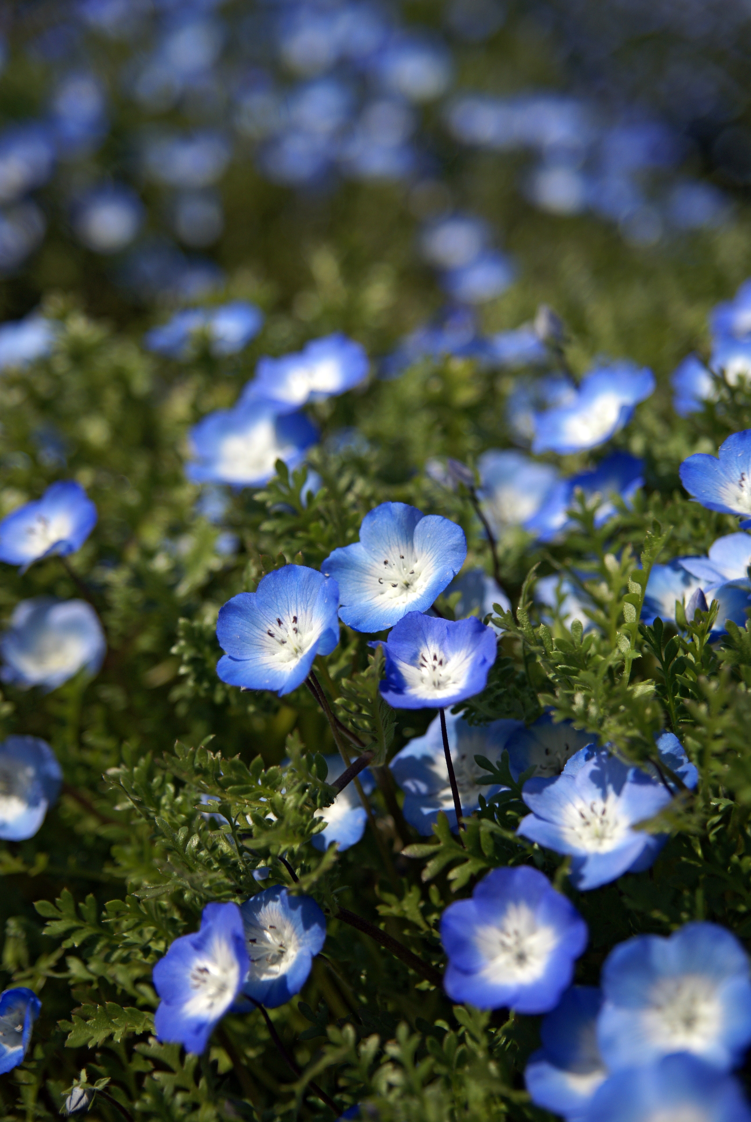 Nemophila of Rinku Park in Izumisano, Osaka prefecture, Japan